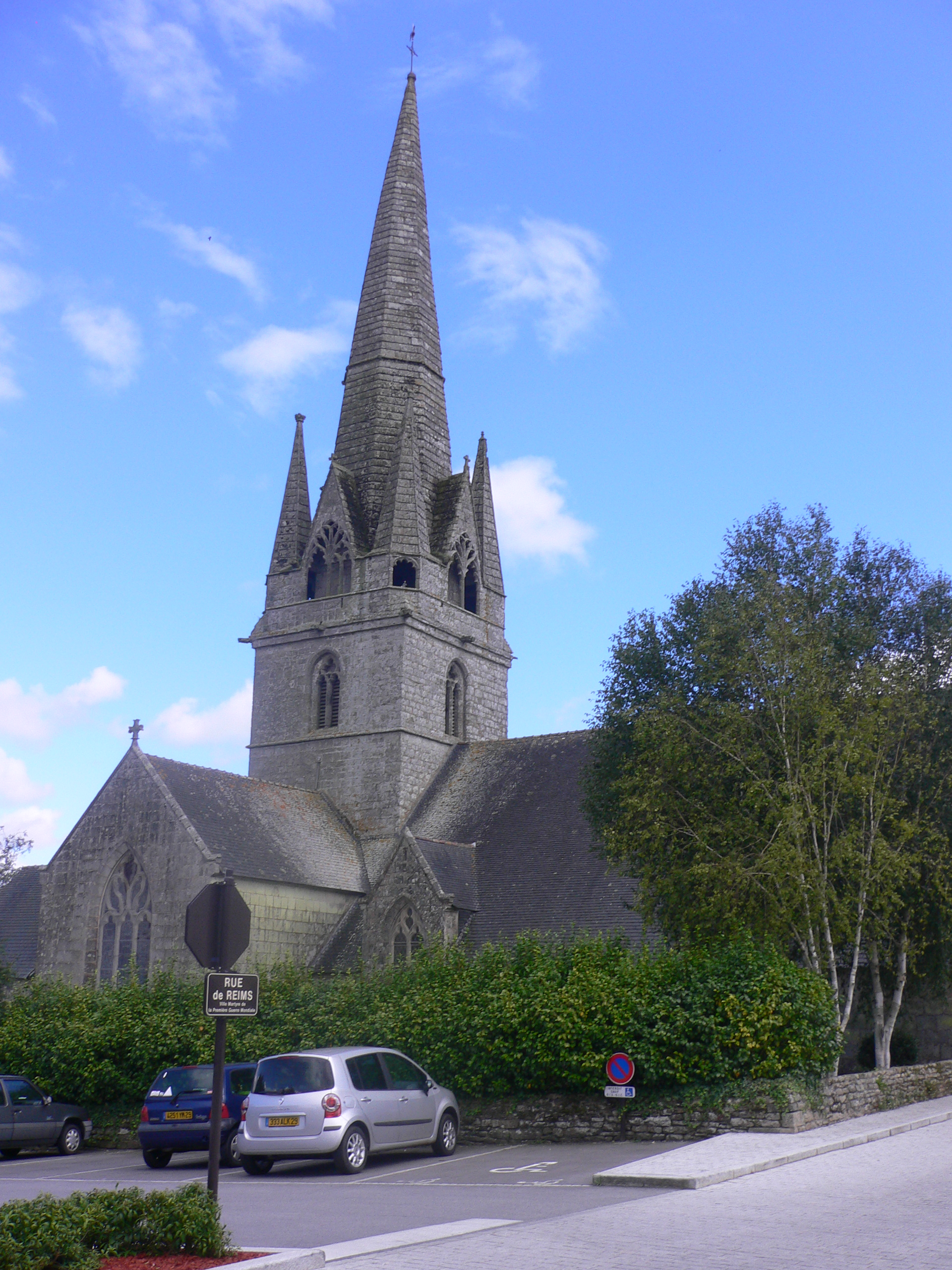 Church of Rosporden